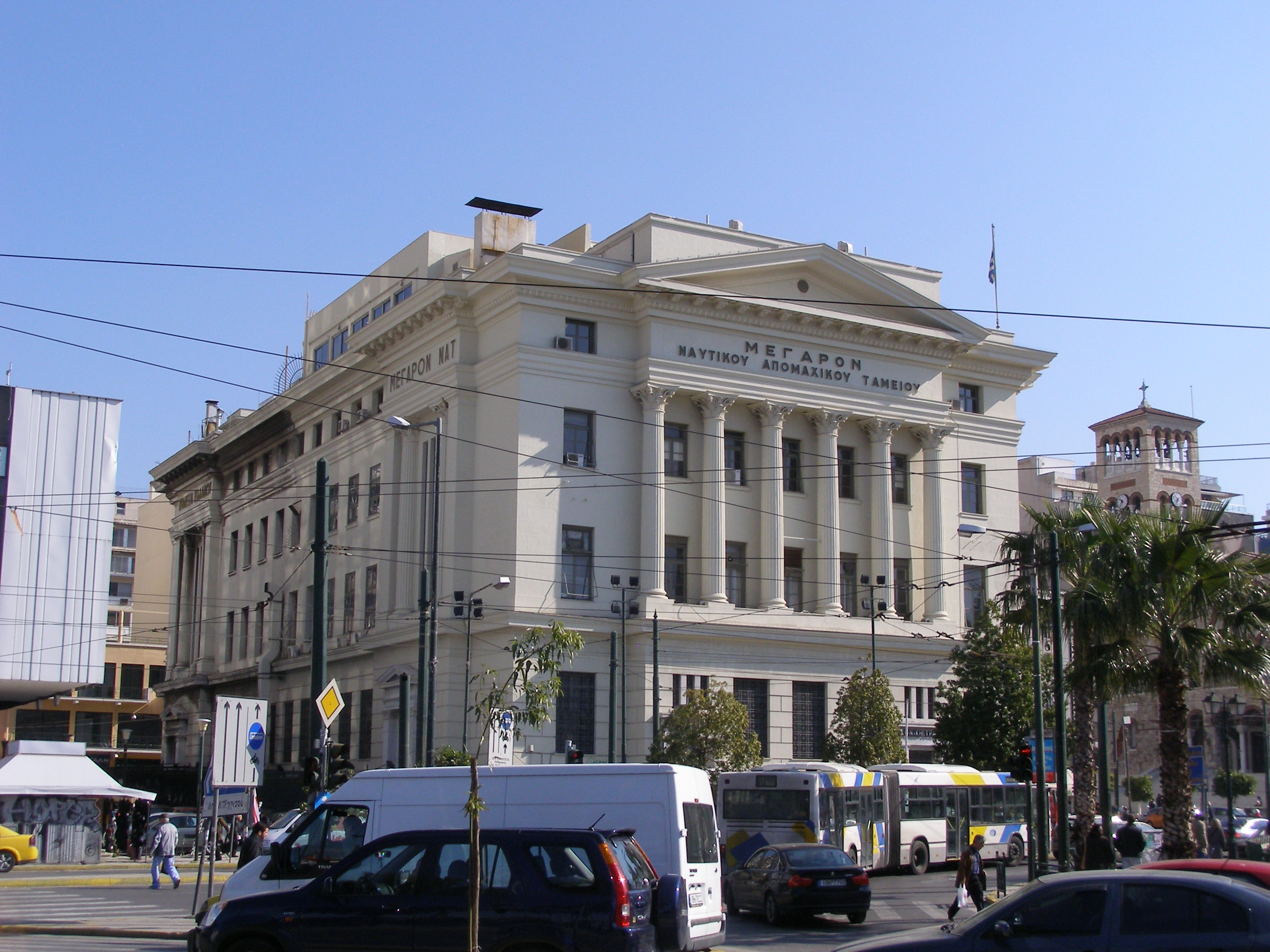 Piraeus - N.A.T.